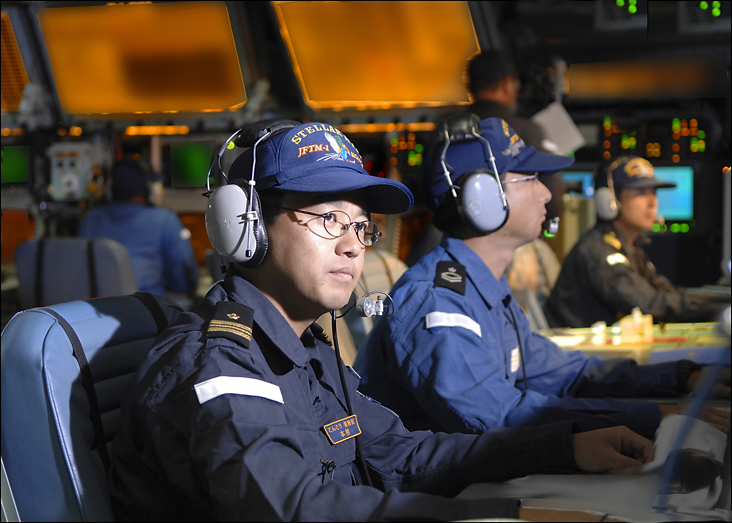 Dec. 17, 2007 - A tracking station is alerts after a Standard Missile 3 (SM-3) launched from the Japanese AEGIS Destroyer JS Kongo intercepts a target missile launched from the Pacific Missile Range Facility, Kauai, Hawaii December 17, 2007. FTM-1 was the first time that a Japanese ship was designated to launch the interceptor missile, a major milestone in the growing cooperation between Japan and the U.S. (U.S. Navy Photos) Learn more at